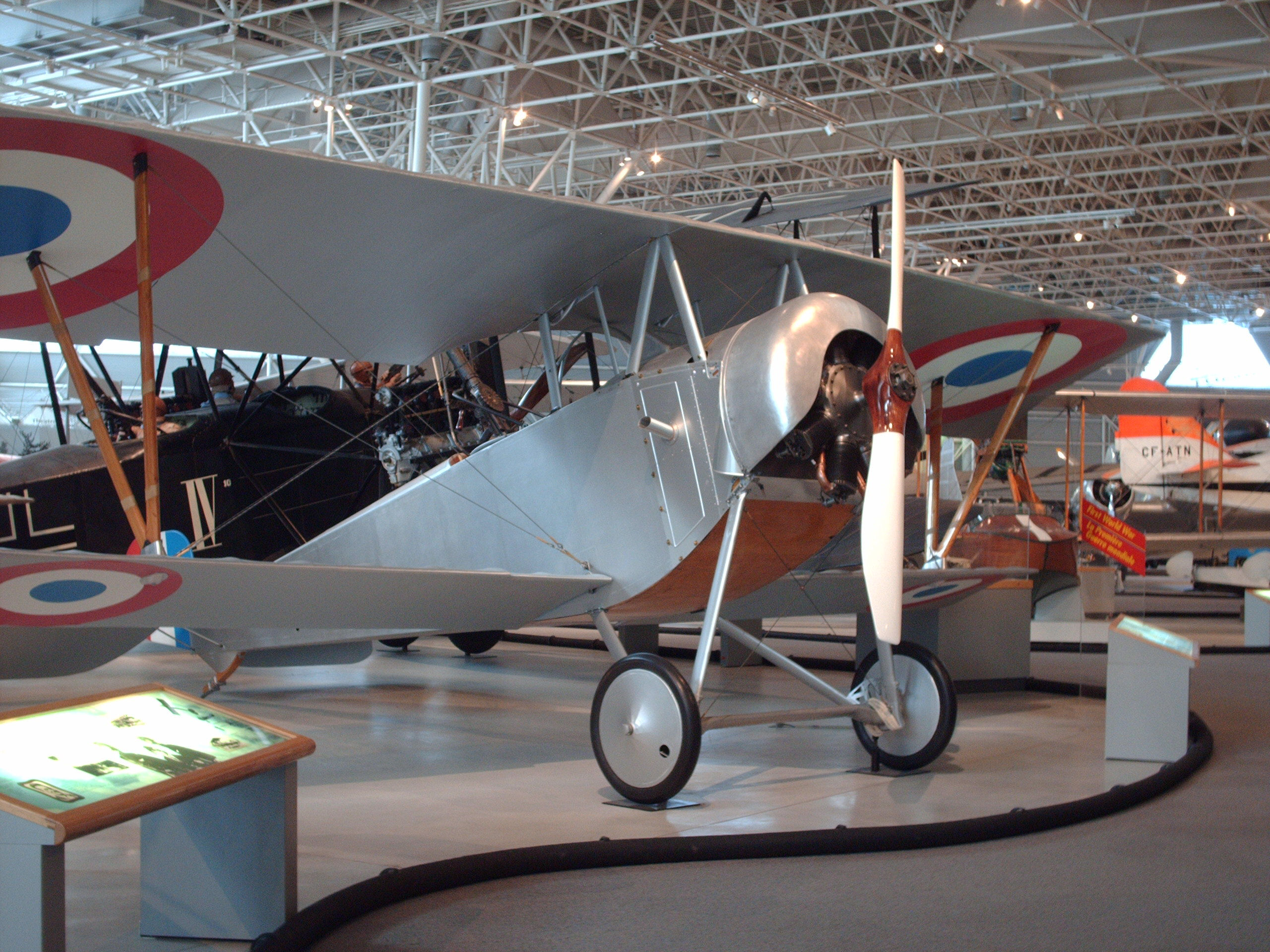 Nieuport 12 at the Canada Aviation and Space Museum in Ottawa, Canada, following extensive restoration to original condition. This aircraft was donated, along with a French 75mm cannon and a large collection of propaganda posters to the Canadian Dominion Archivist Sir Arthur Doughty and after being shipped to Canada, was used for war bond drives until the influenza outbreak resulted in further war bond fundraising being cancelled, and it being placed in storage. In the late 1960s it was taken out of storage and in the absence of any information, was modified by the Air Force to appear as a Beardmore-built Nieuport 12, with a new fin and rudder to replace those lost during its travels, and the engine was replaced with a Clerget, as references indicated was the correct engine. During restoration, photos as it appeared during the war bond drive were discovered, the original engine was identified, located, and reinstalled, damaged components rebuilt, along with a new rudder and tail skid.